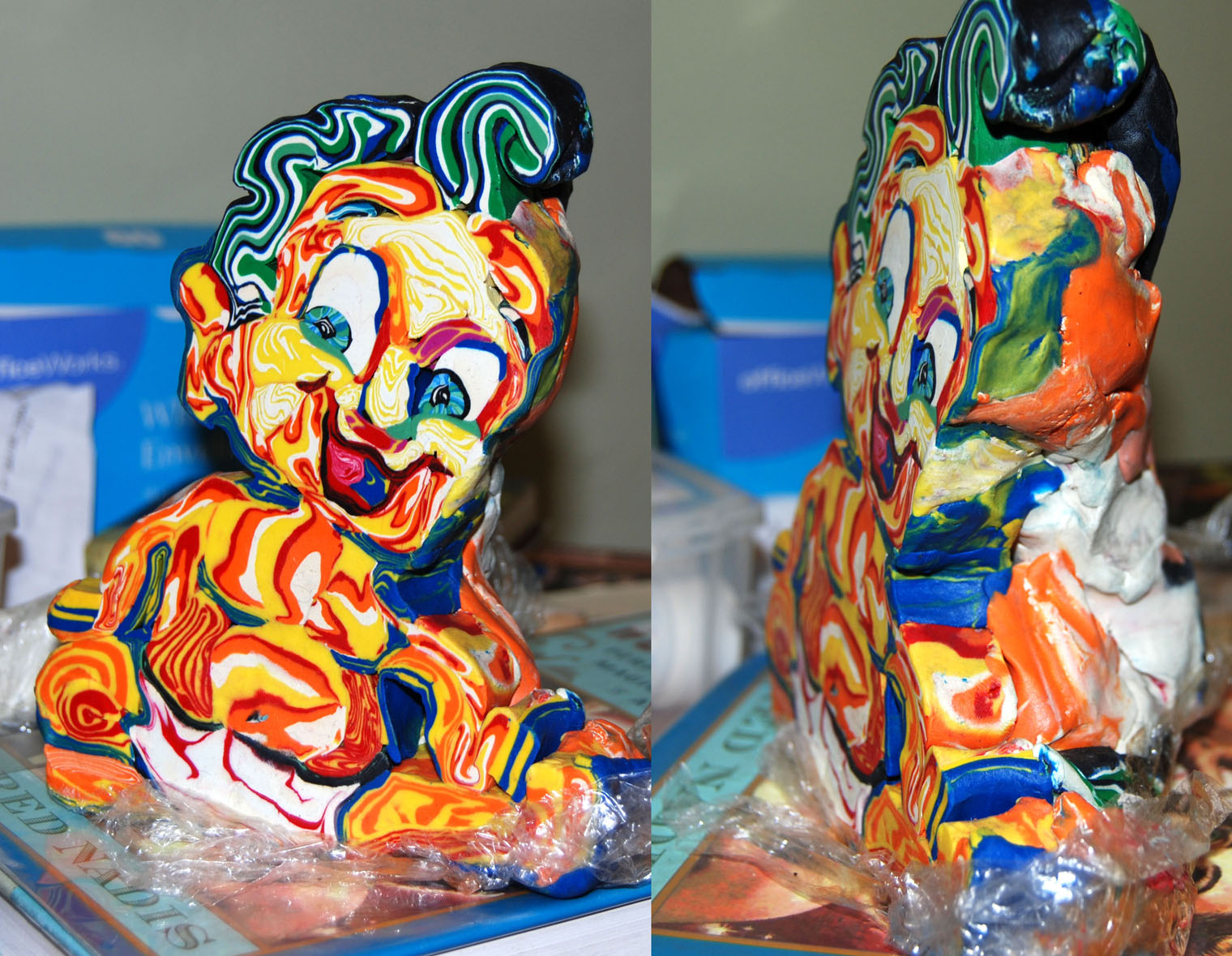 Front and side view of a partial stratacut "log" sculpted by David Daniels. It depicts a baby in colorful model clay.